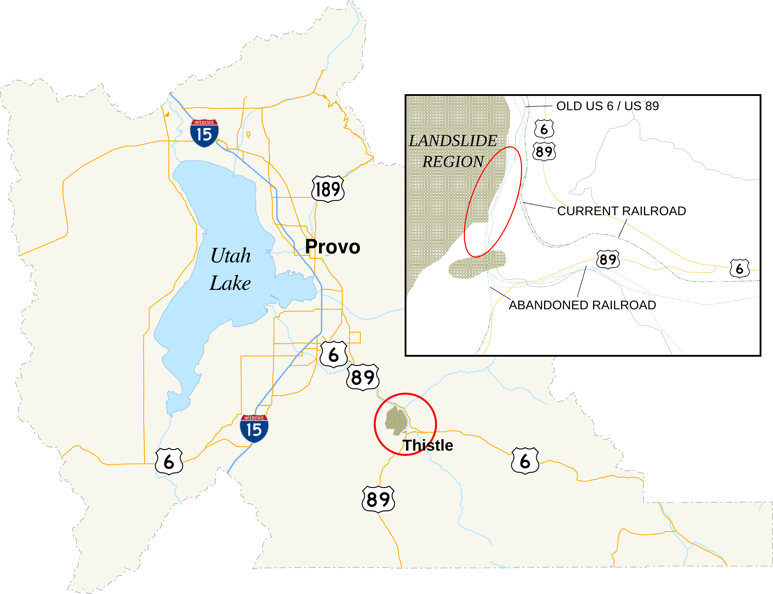 A map of Utah County, Utah, showing the location of Thistle in the county. In the map is an inset of the region affected by the 1983 landslide. The red circle denotes the area enlarged in the inset. The red oval is the approximate location of the landslide dam.